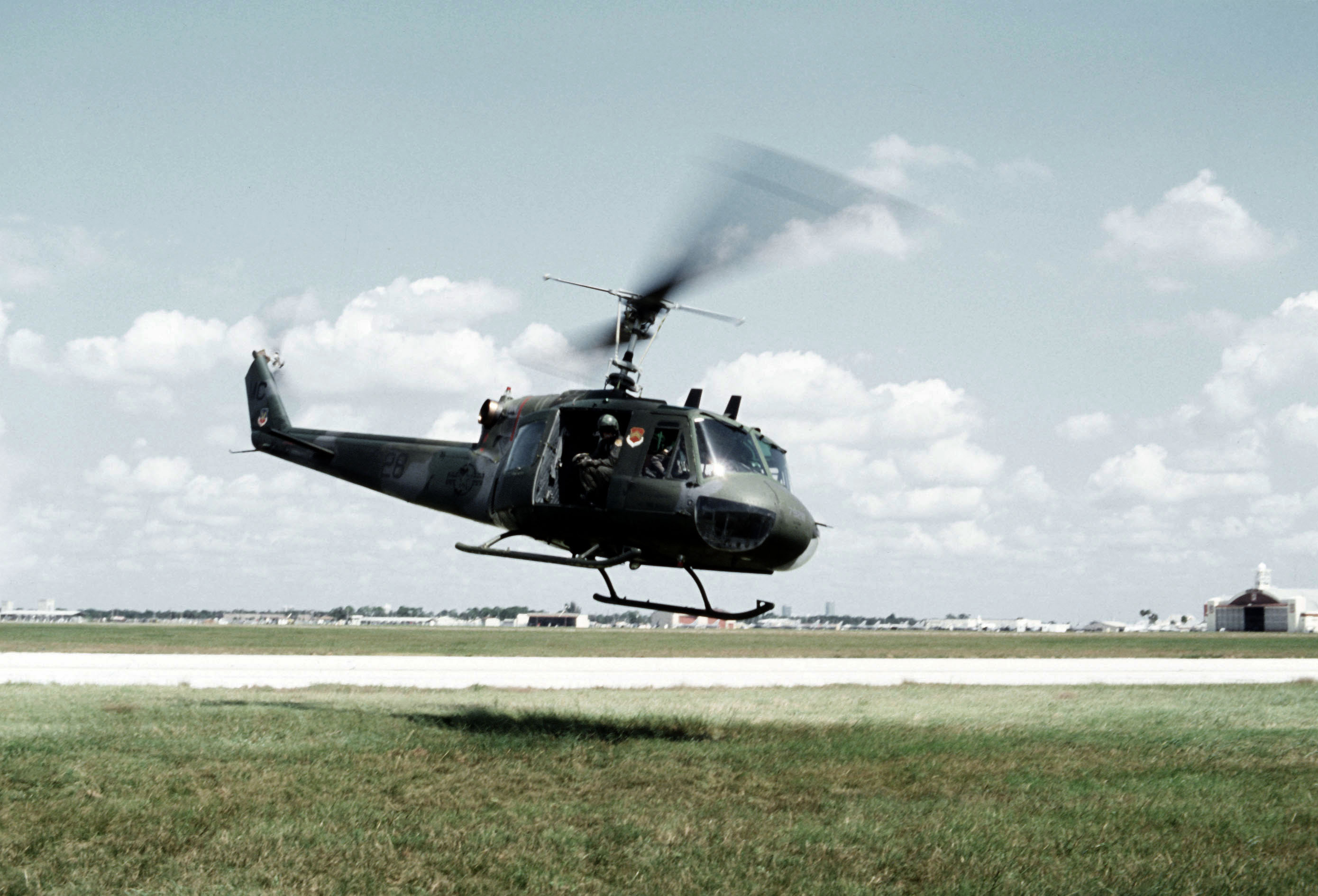 A U.S. Air Force Bell UH-1P Huey helicopter lands for the evacuation of "wounded" from the Medical Clearing Company during exercise "Patriot Samaritan" at MacDill Air Force Base, Florida (USA), on 28 September 1983. The 56th Tactical Fighter Wing at MacDill used the UH-1P helicopters from 1976 to 1987 to support Avon Range logistics needs, search and rescue efforts, and humanitarian missions.